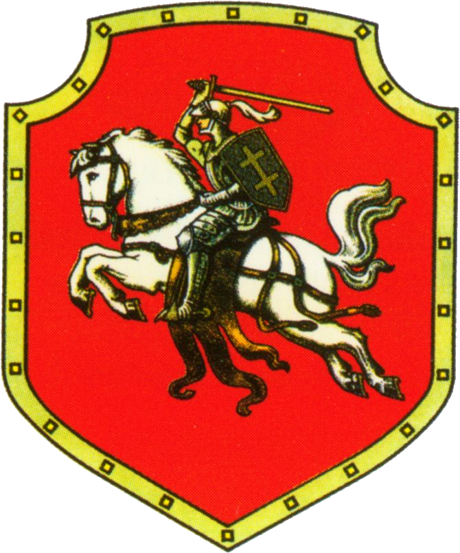 Coat of arms of Lithuania between the world wars